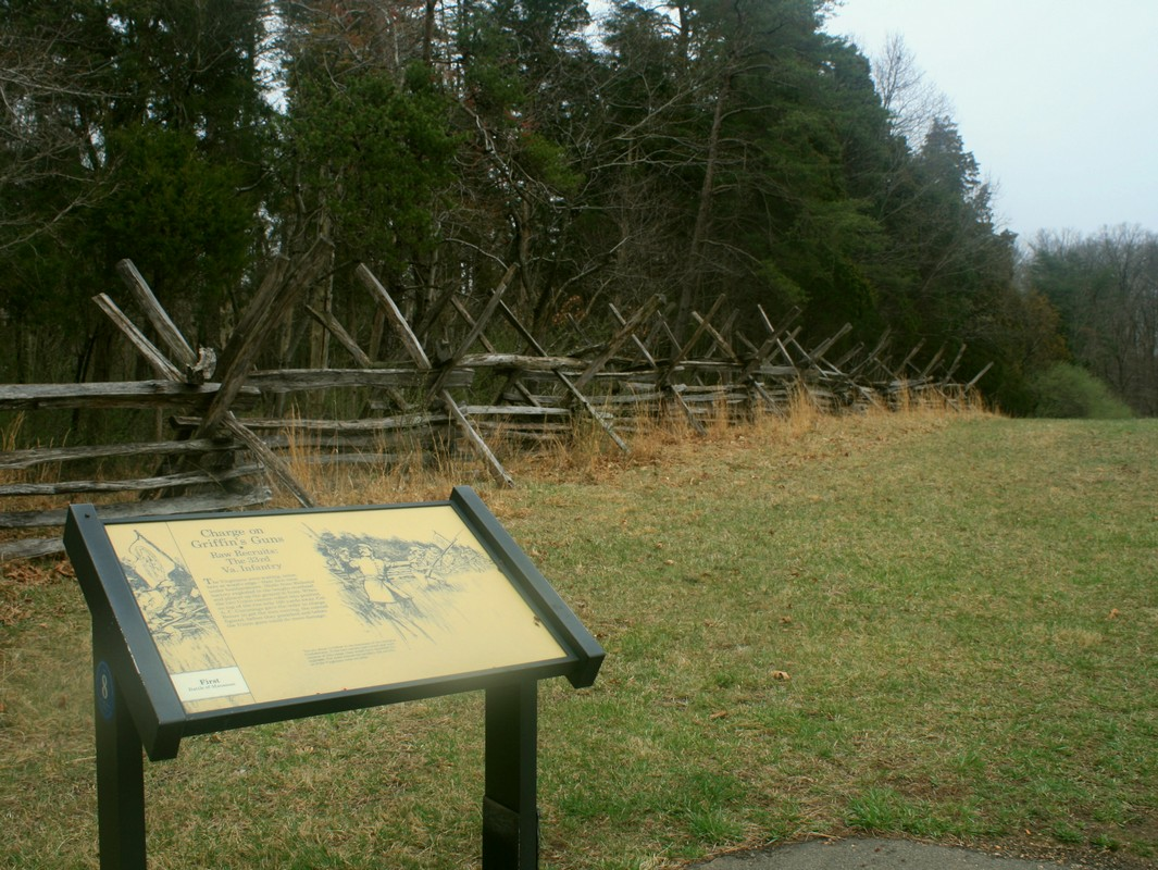 33rd Virginia infantry charge on Griffins guns